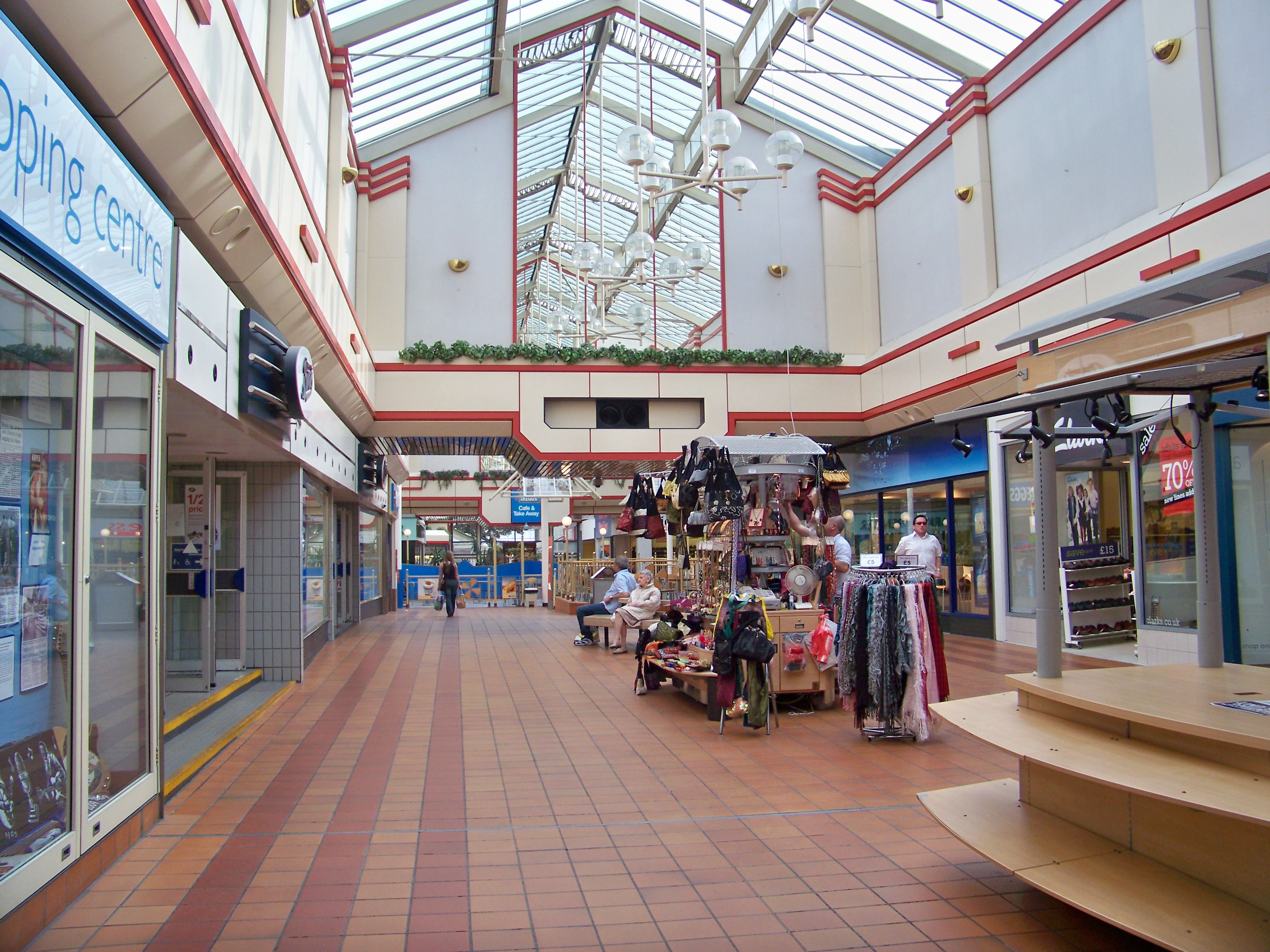 The inside of the Airedale Centre in Keighley, West Yorkshire, taken on the evening of Saturday 22nd August 2009.